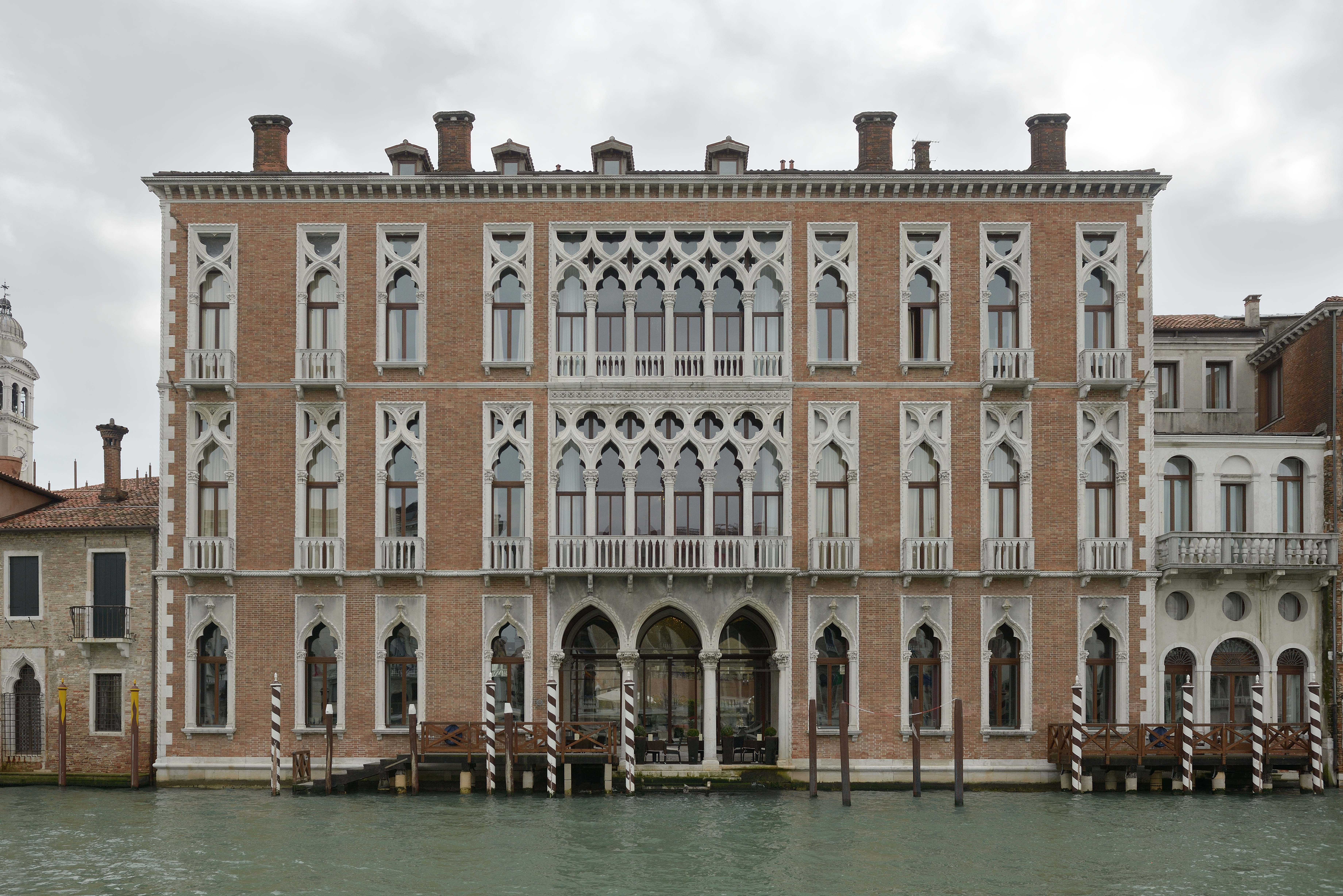 Palace Palazzo Genovese Venice. Facade on Grand Canal.